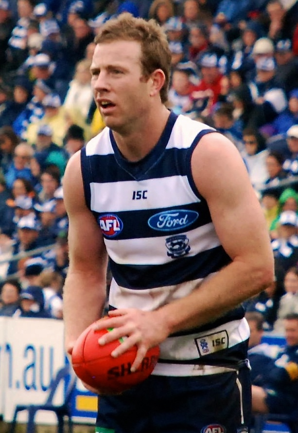 Steve Johnson prepares to kick for goal in Round 19 of the 2011 season